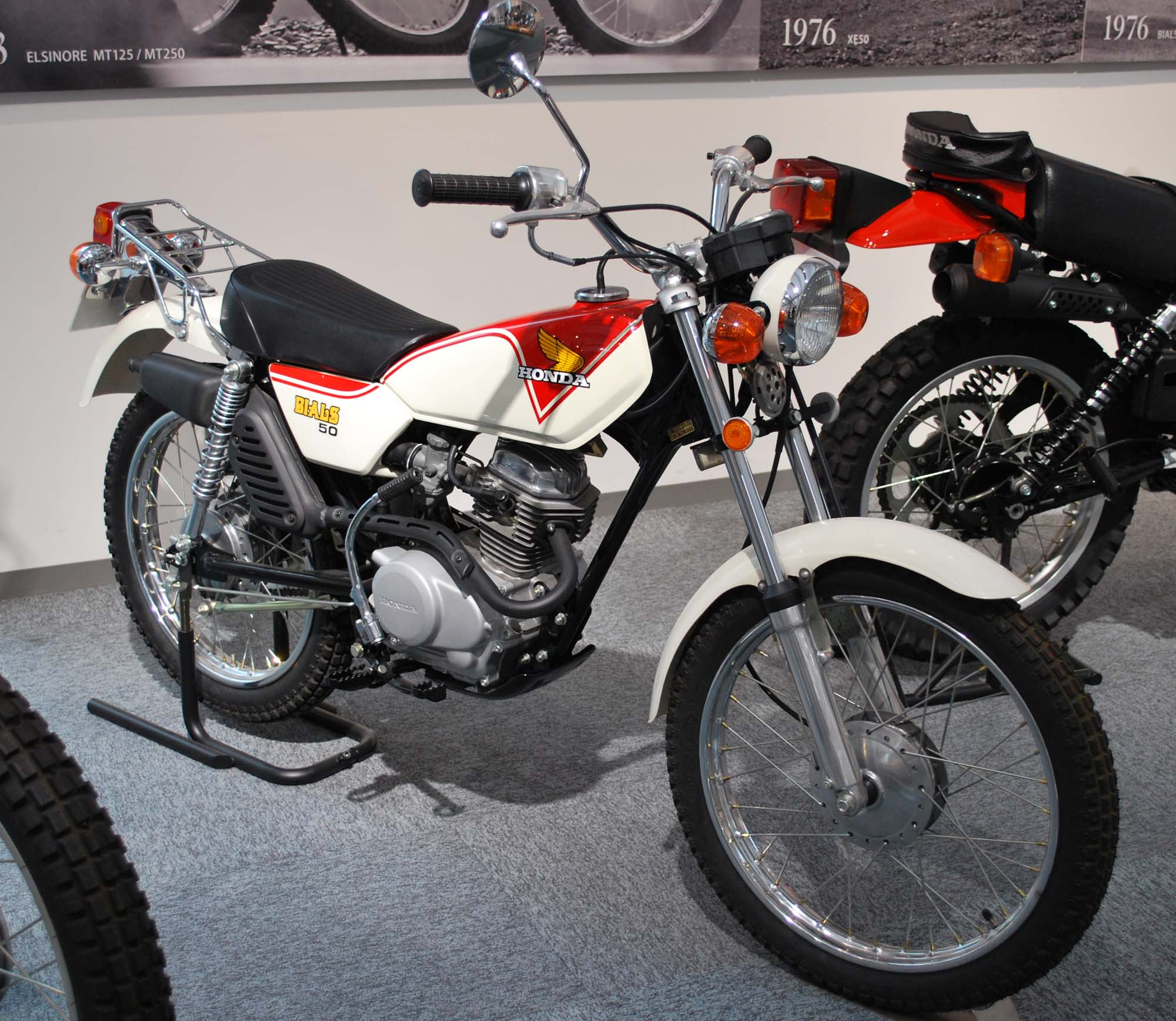 Honda TL50 (1976)